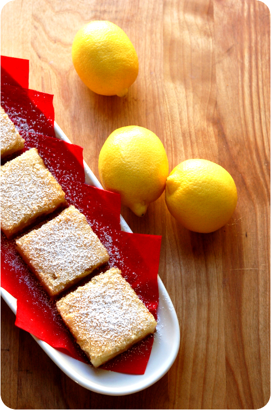 Lemon squares on dish with red napkins.